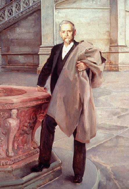 Richard Morris Hunt (1828-1895)